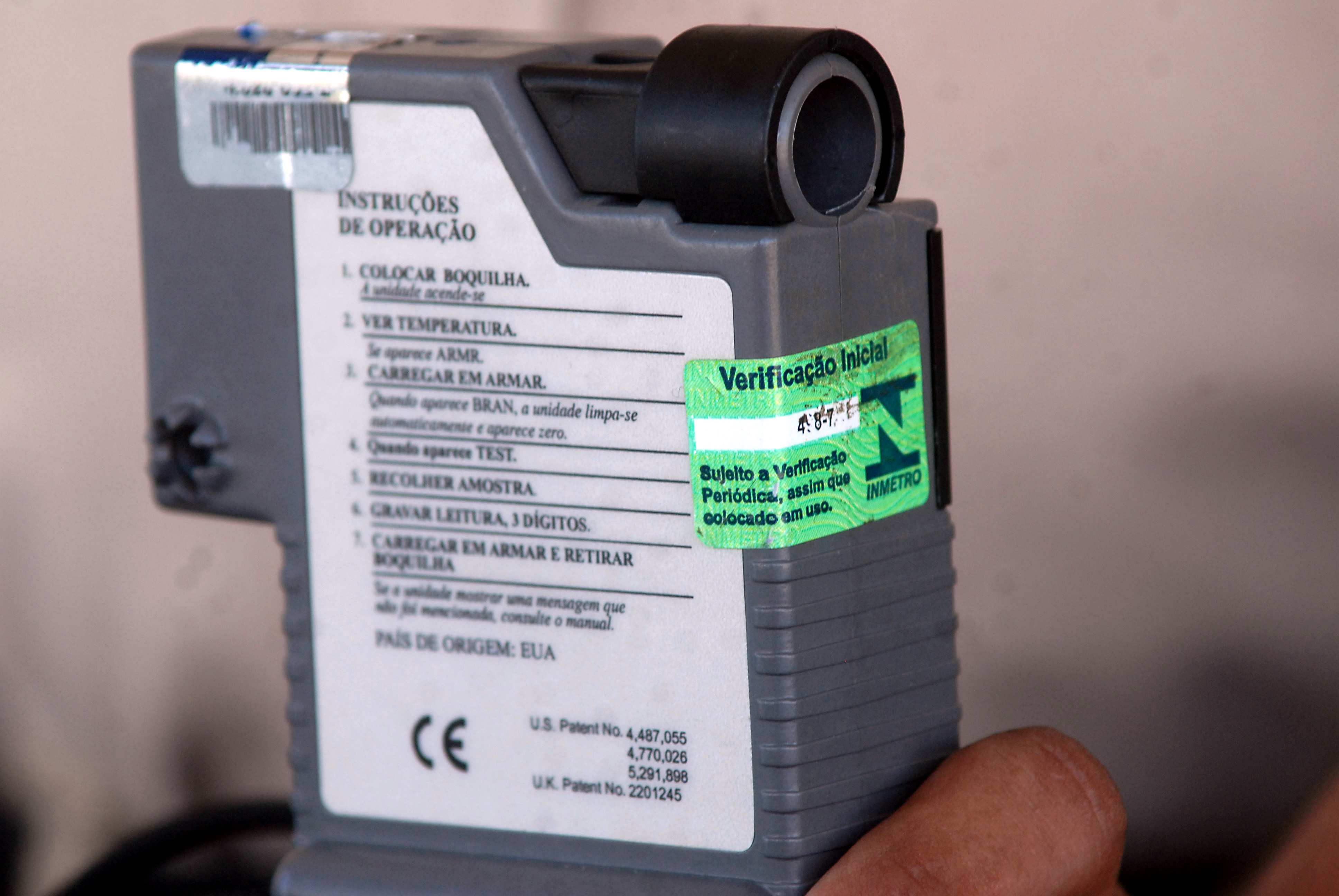 Breathalyzer